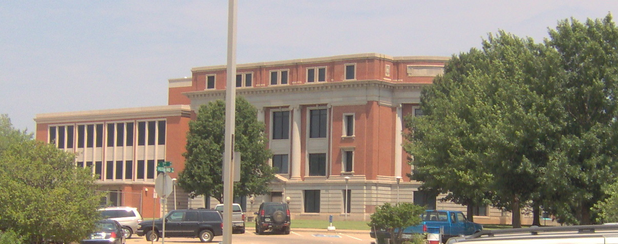 Southern side of the Payne County Courthouse, located at 606 S. Husband Street in Stillwater, Oklahoma, United States. Built in 1917, it is listed on the National Register of Historic Places.